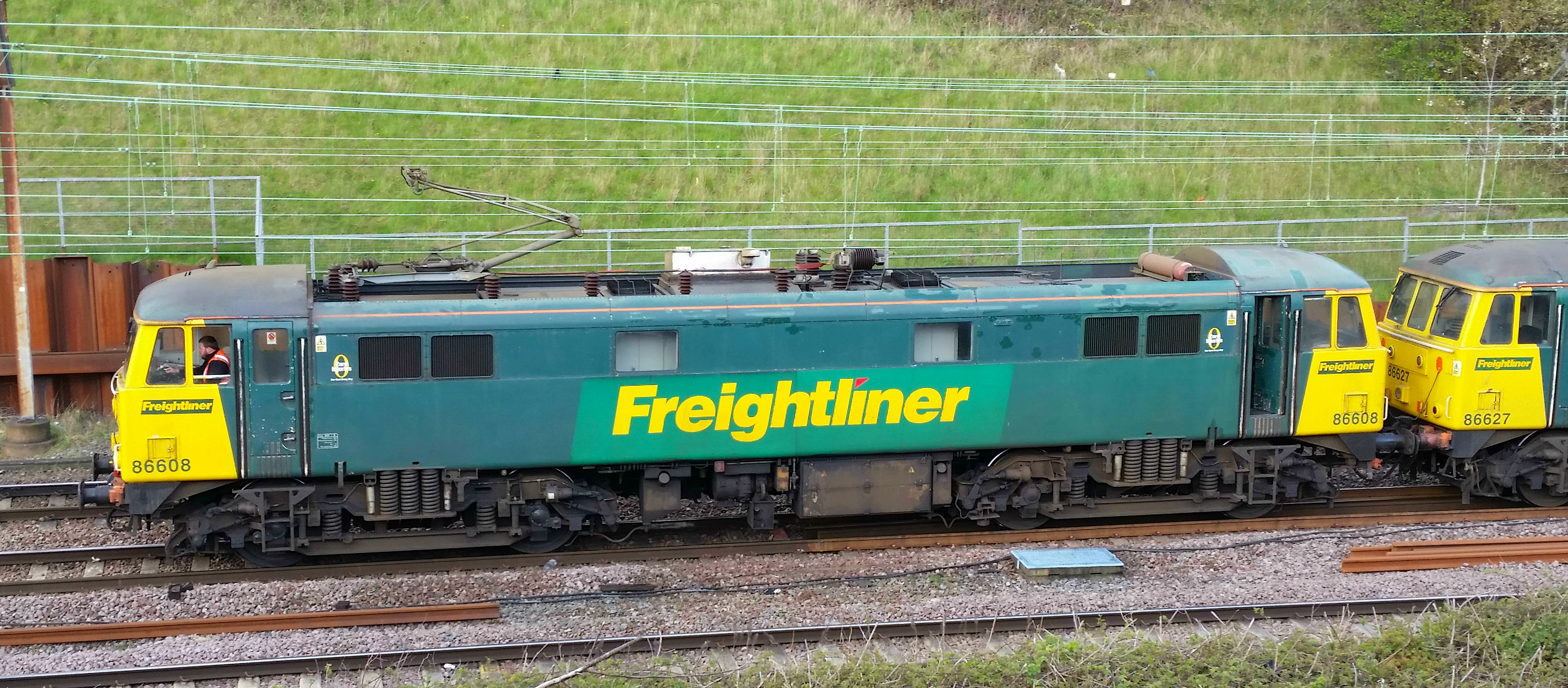 Freightliner 86608 leads 86627 on a convoy working from Liverpool to Crewe Basford Hall.